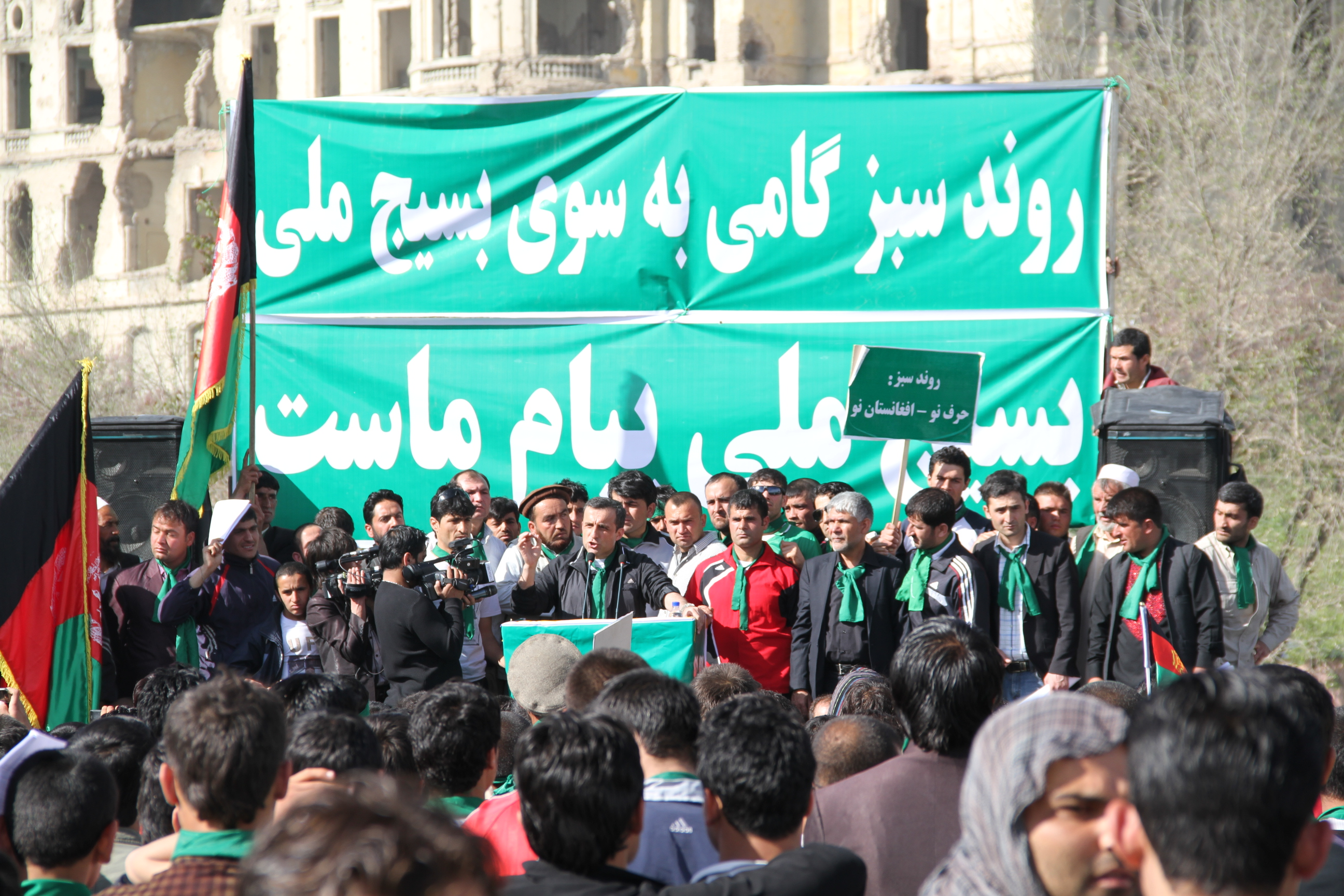 Amrullah Saleh adddresses a large youth rally in Kabul